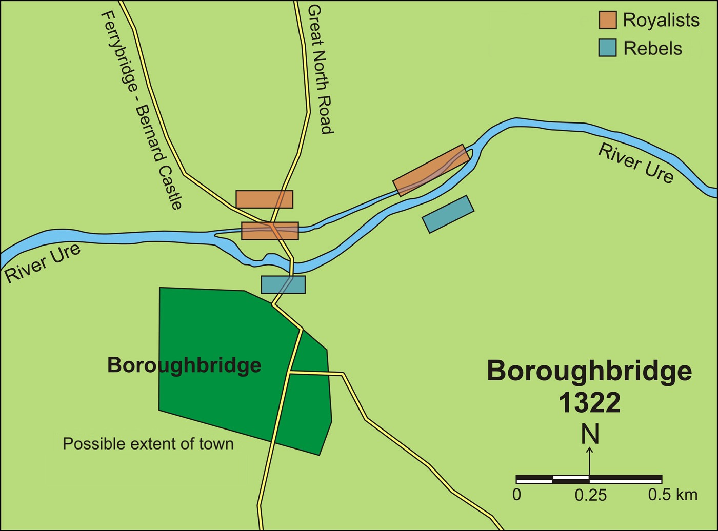 Map of the Battle of Boroughbridge. Altered slightly from original, Norwegian text removed.